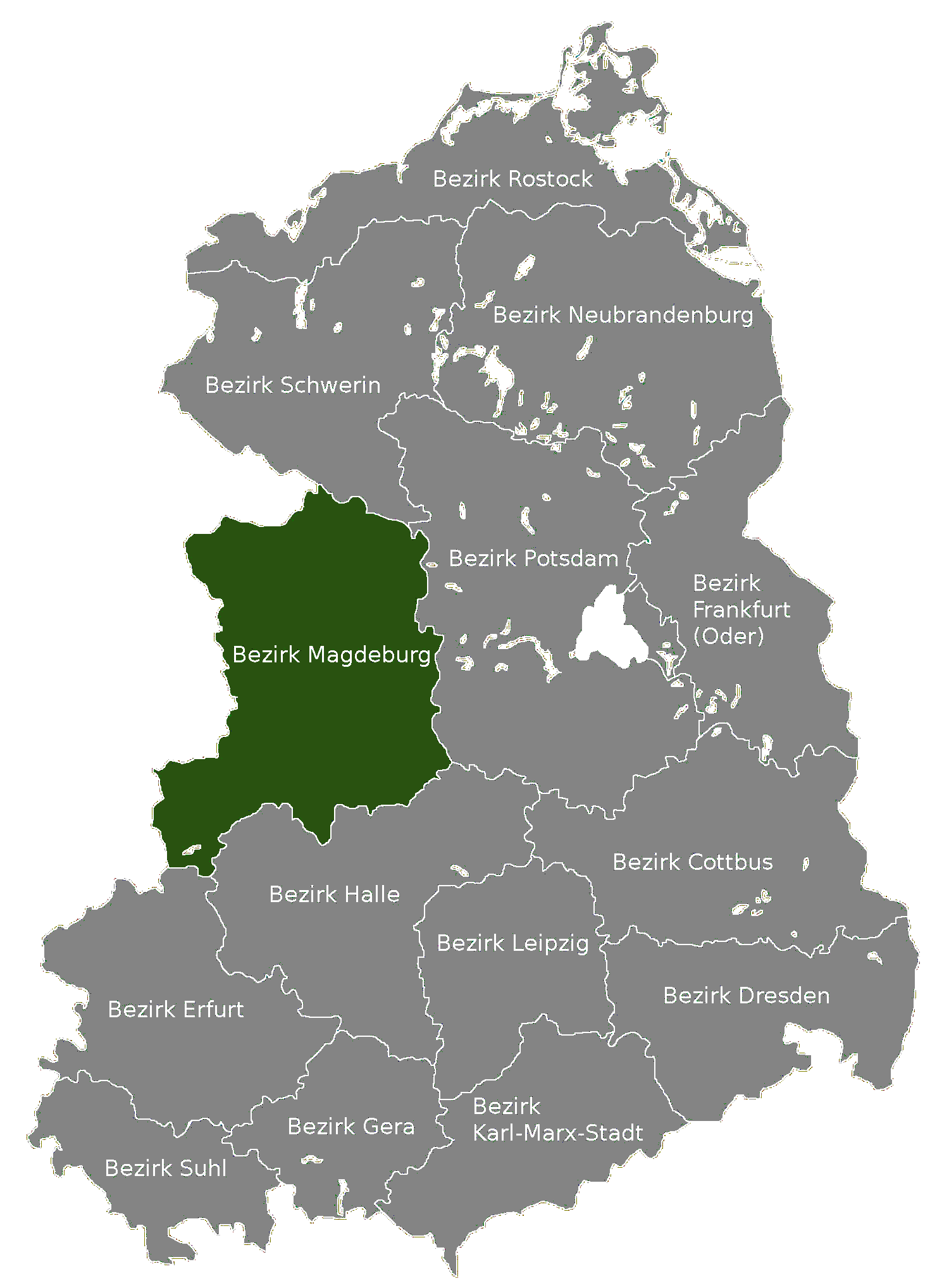 Map based on German Wikipedia